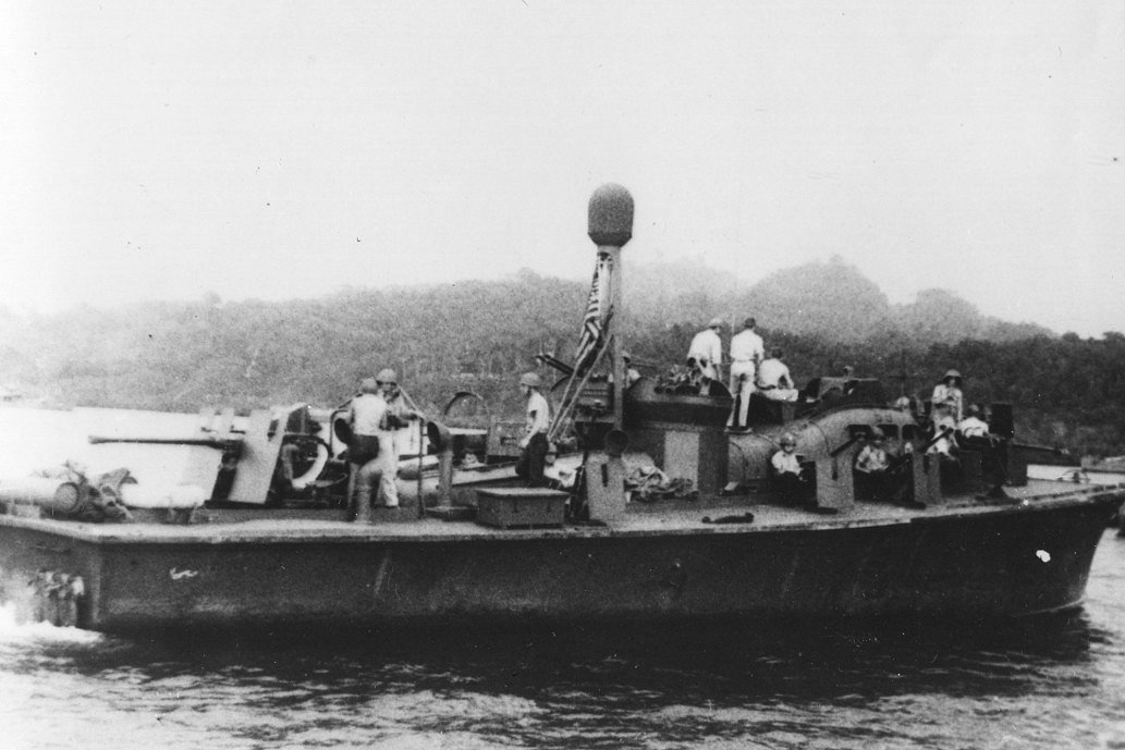 Black and White photo of PT-59 after gunboat refit in Solomon Islands